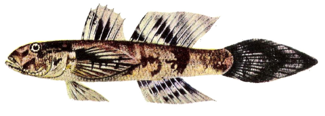 Hasselt's goby - Callogobius hasseltii (Bleeker, 1851)